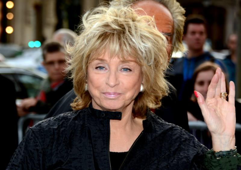 Danièle Thompson at the preview of the Claude Lelouch'movie "Salaud on t'aime"